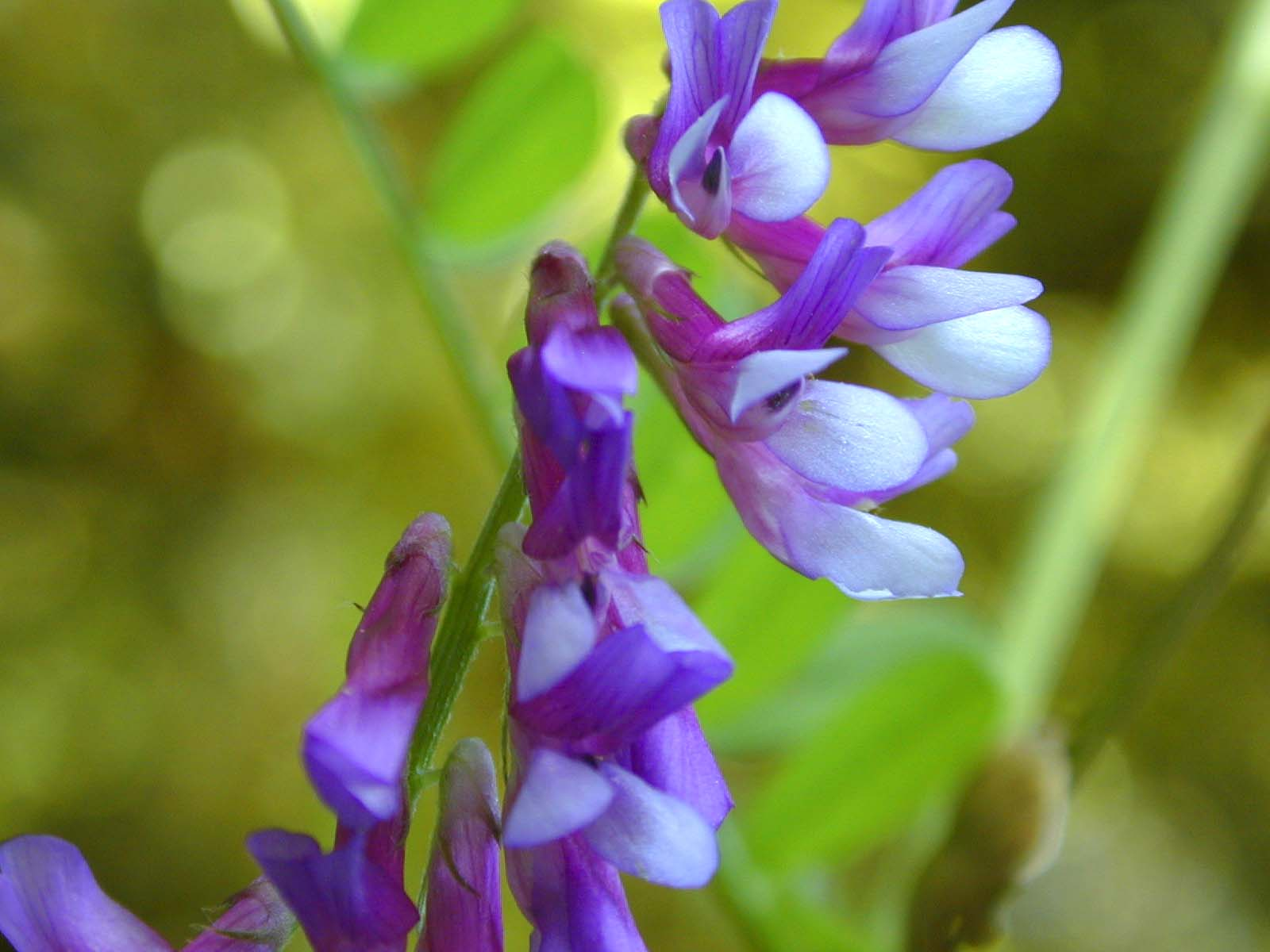 Vicia villosa — Hairy Vetch (non-native/introduced species). In the Monte Bello Open Space Preserve, part of the Midpeninsula Regional Open Space District system. (Geotagged)(CalPhotos) (Jepson).